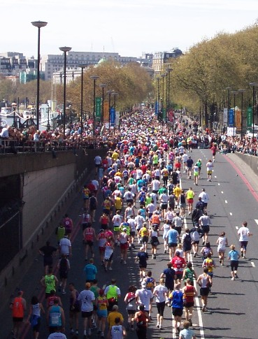 'Fun runners' surge out of the Blackfriars Bridge underpass onto the Victoria Embankment at the London Marathon 2005; four hours down and two miles to go.